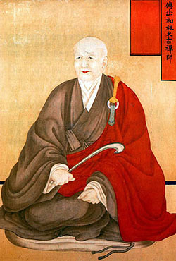 Portrait of T'aego Pou, great Korean seon master (XIV century)